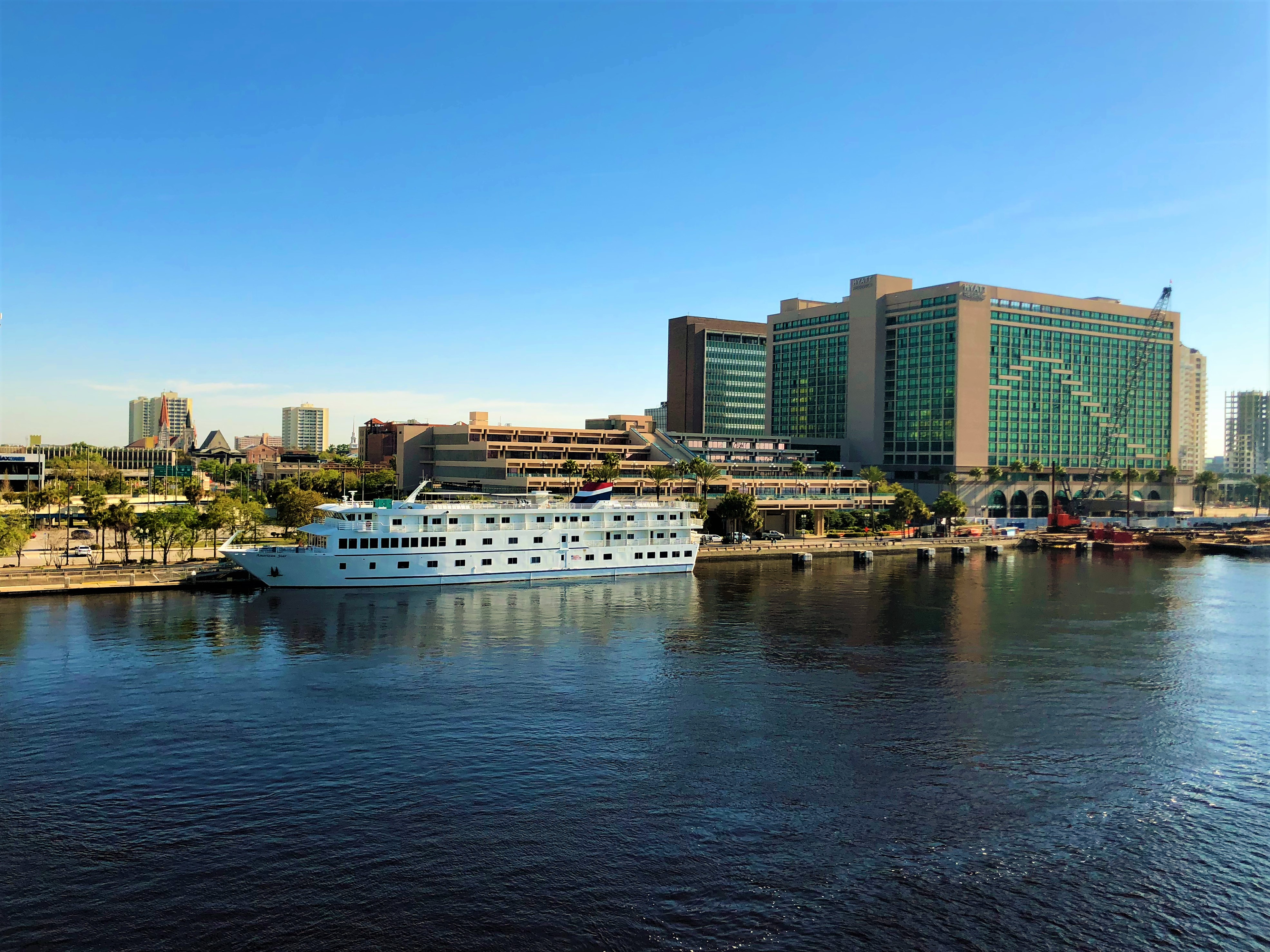 An American Cruise Line ship docked in Jacksonville, Florida.